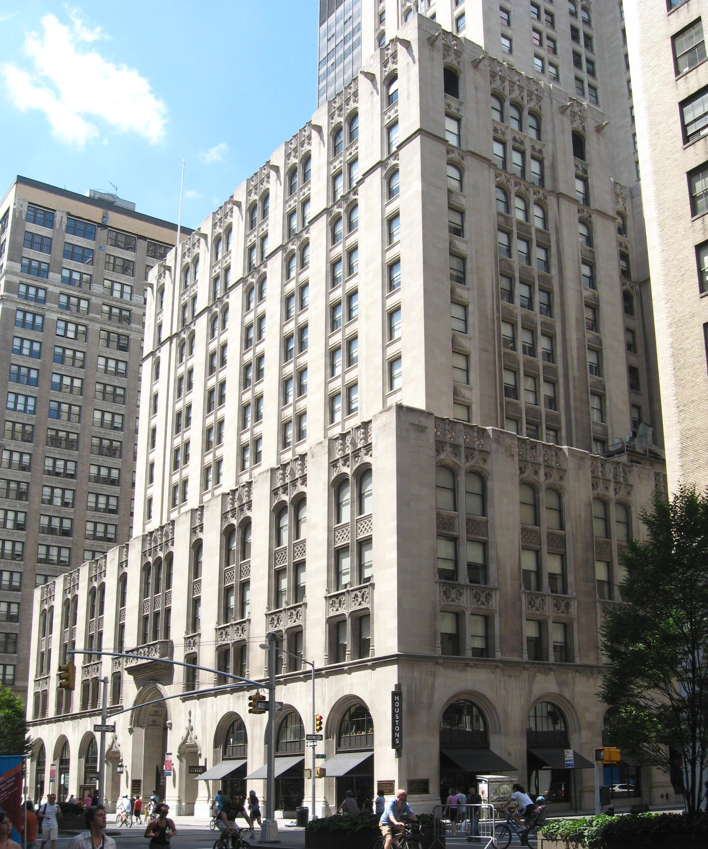 Looking southwest across Park Avenue at back side of en: New York Life Building on a sunny midday